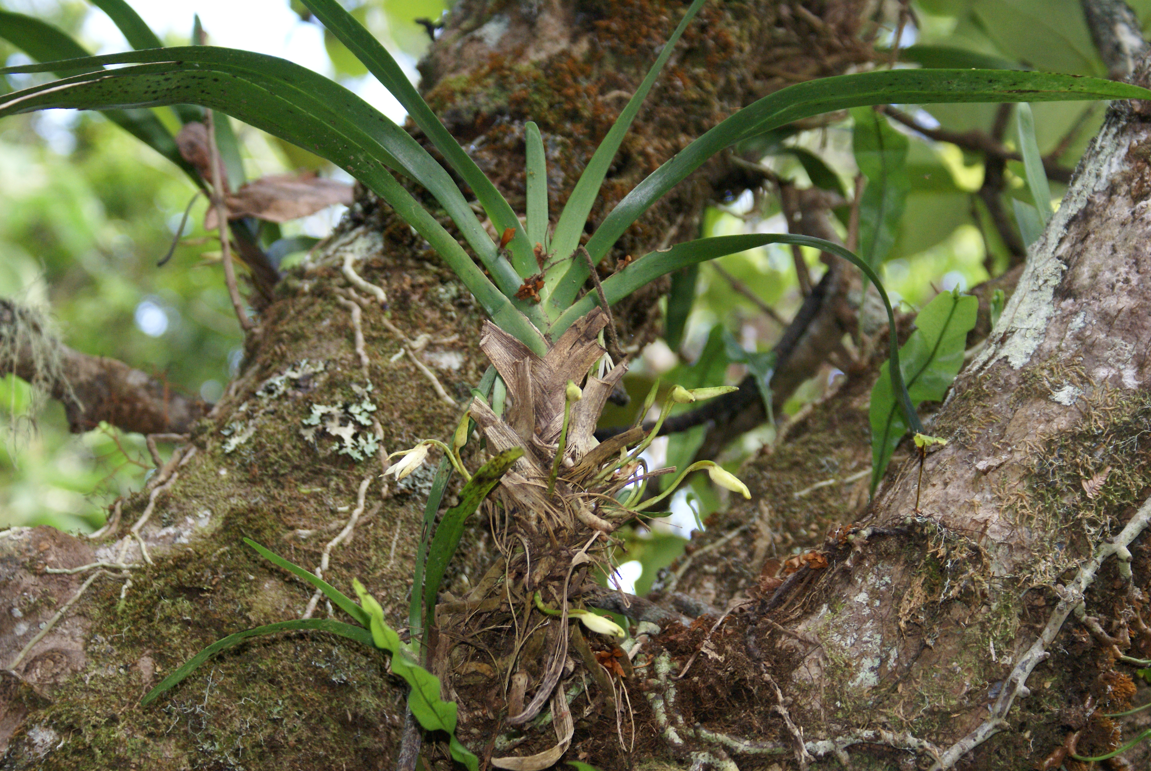 Angraecum borbonicum, an epiphytic orchid endemic to Réunion island rather common in mountain natural forests